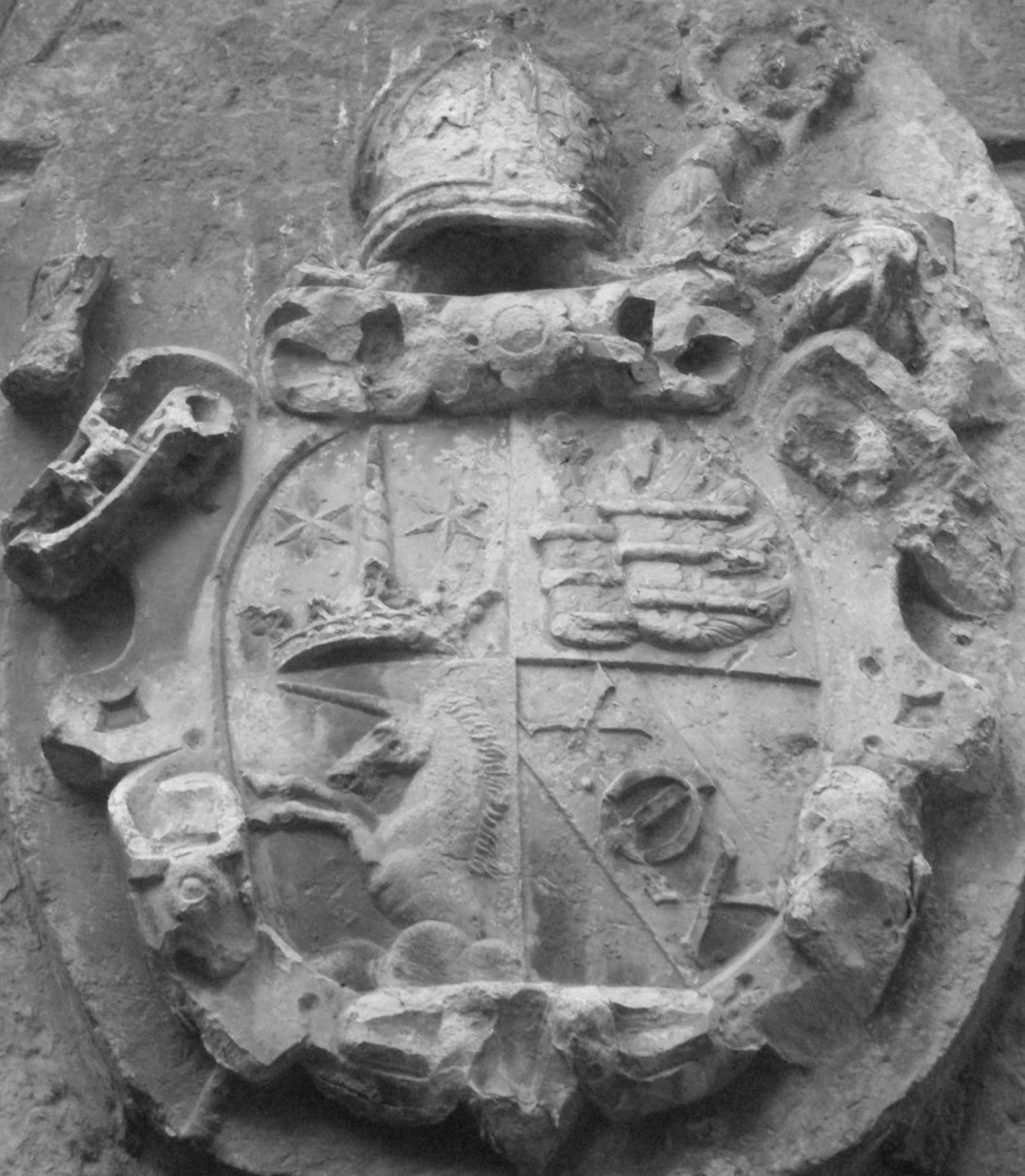 Coat of arms of Zakariás Mossóczy (Zachariáš Mošóczy, 1542 – 1587), bishop of Vác, Hungary (1578 – 1580), bishop of Nitra, Kingdom of Hungary (1582 – 1587). Gate in Nitra Castle.